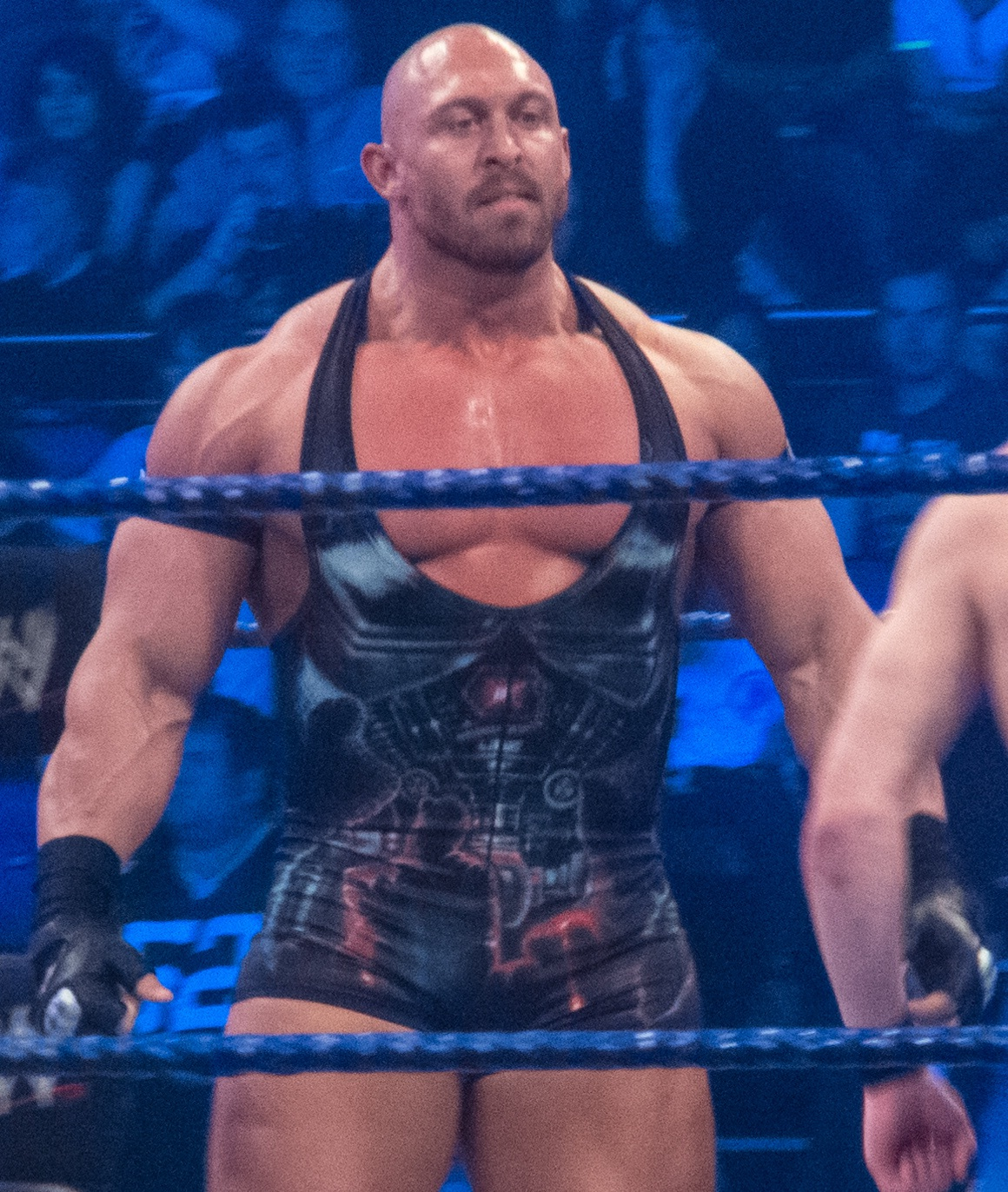 Ryback vs. James Lerman at WWE SmackDown